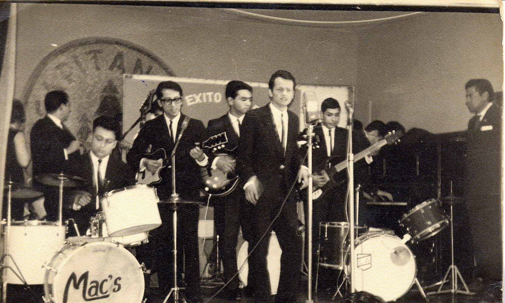 Eduardo Carretero, David Mac Iver, Gabriel Marambio, Carlos Mac Iver, José Soto and Daniel Giovanovic (back on the piano) Los Mac's originals, Capitanac Auditorium, Valparaiso in 1963.